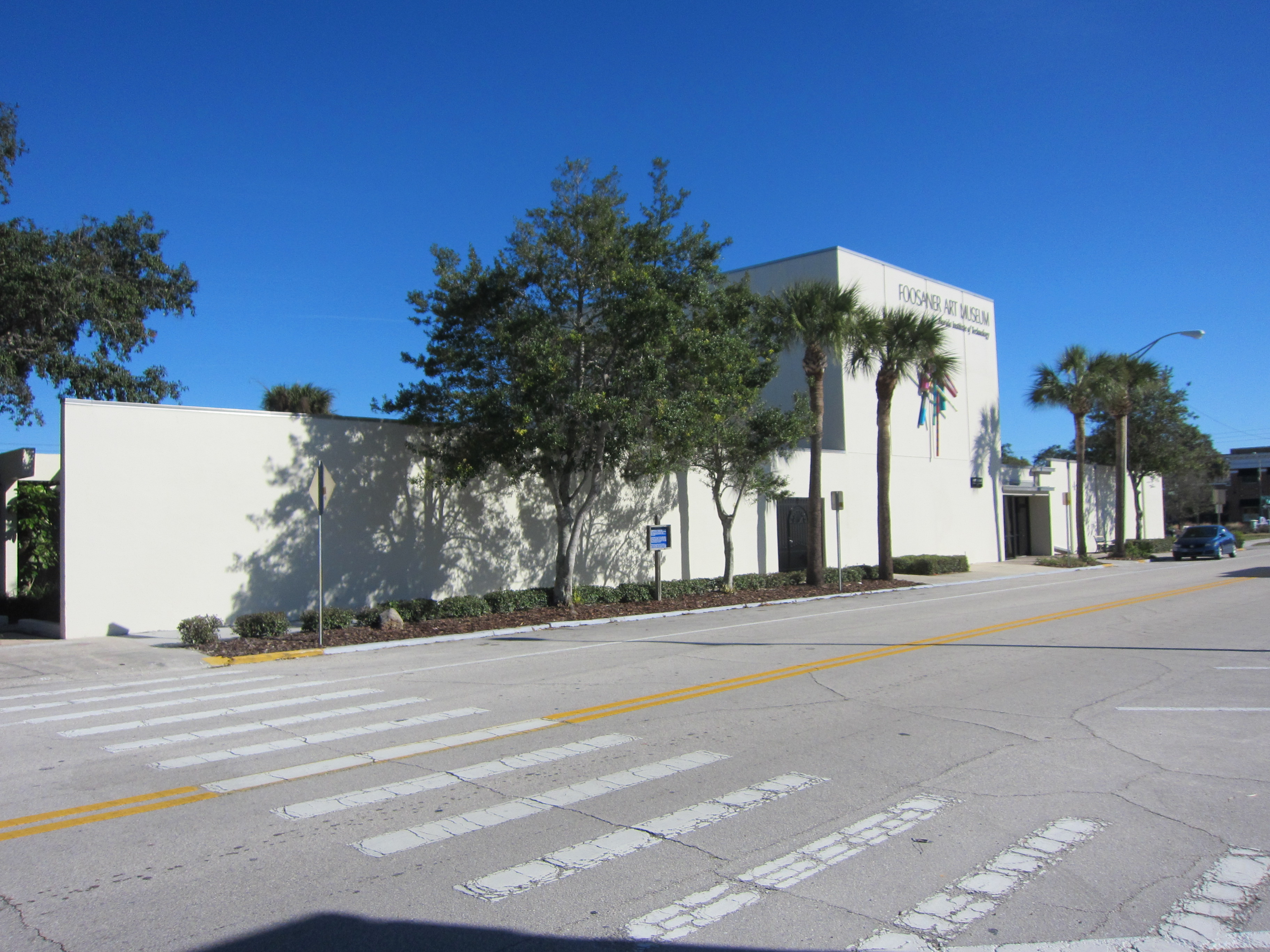 Foosaner Art Museum, 1463 Highland Avenue, Eau Gallie, Florida.